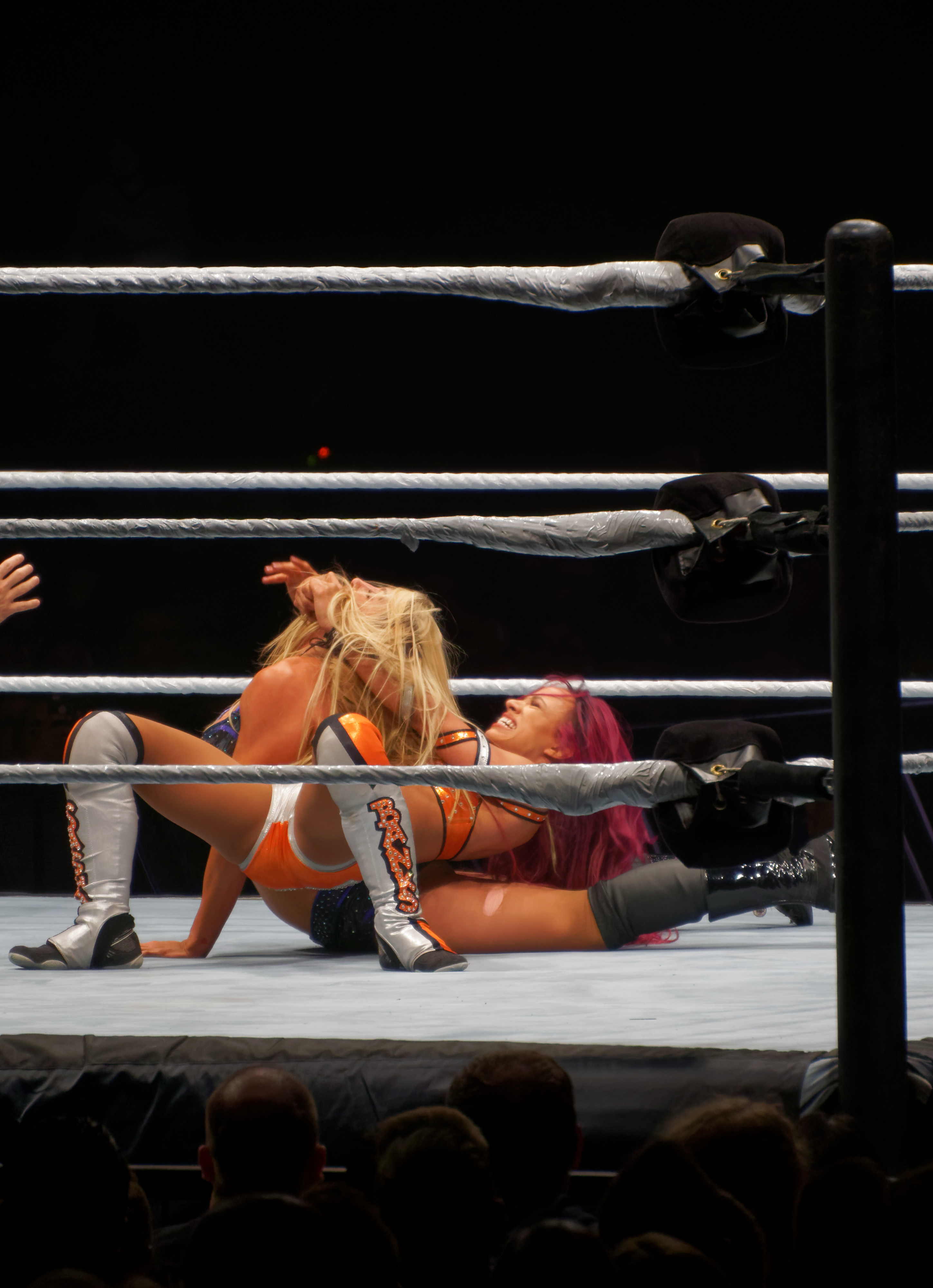 WWE Live returns to London this September Join Roman Reigns, Seth Rollins and more WWE Superstars at the 02 Arena for a one-night-only WWE Live in London on Wednesday, 7 Sept. Charlotte (c) def. (pin) Sasha Banks For : WWE Raw Women's Title